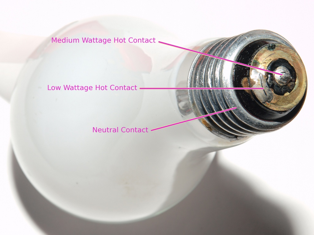 The Contacts of a 3-Way Bulb. Center: The medium wattage hot contact. Off-center ring: The low wattage hot contact. Screw shell: The neutral contact for both filaments